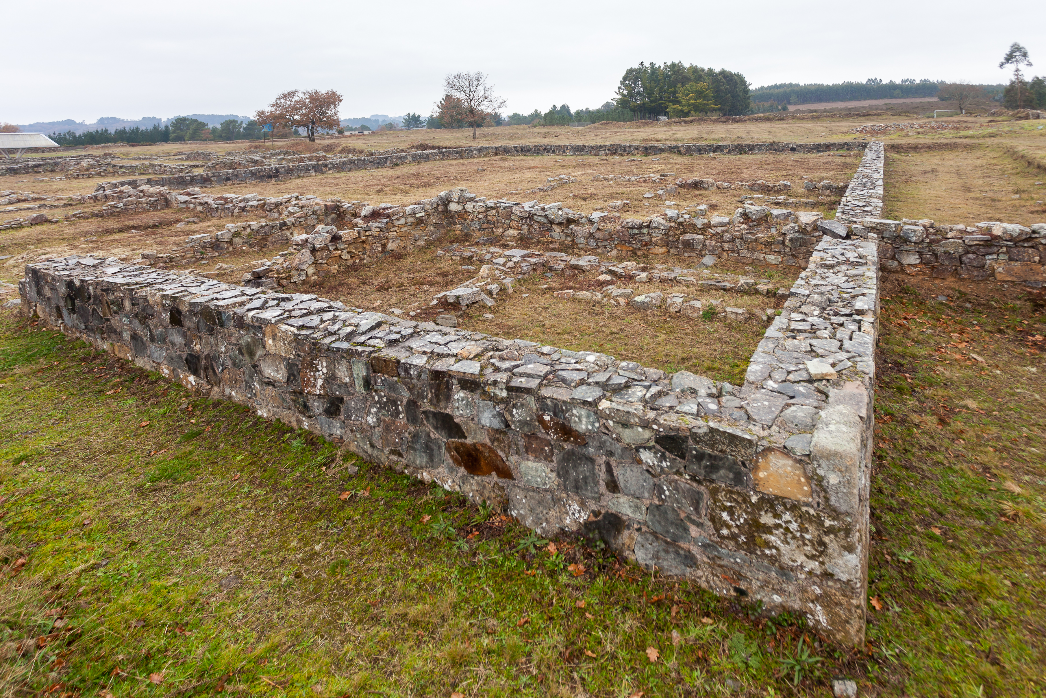 Ancient Roman castra of A Ciadella, Sobrado, Galicia (Spain).